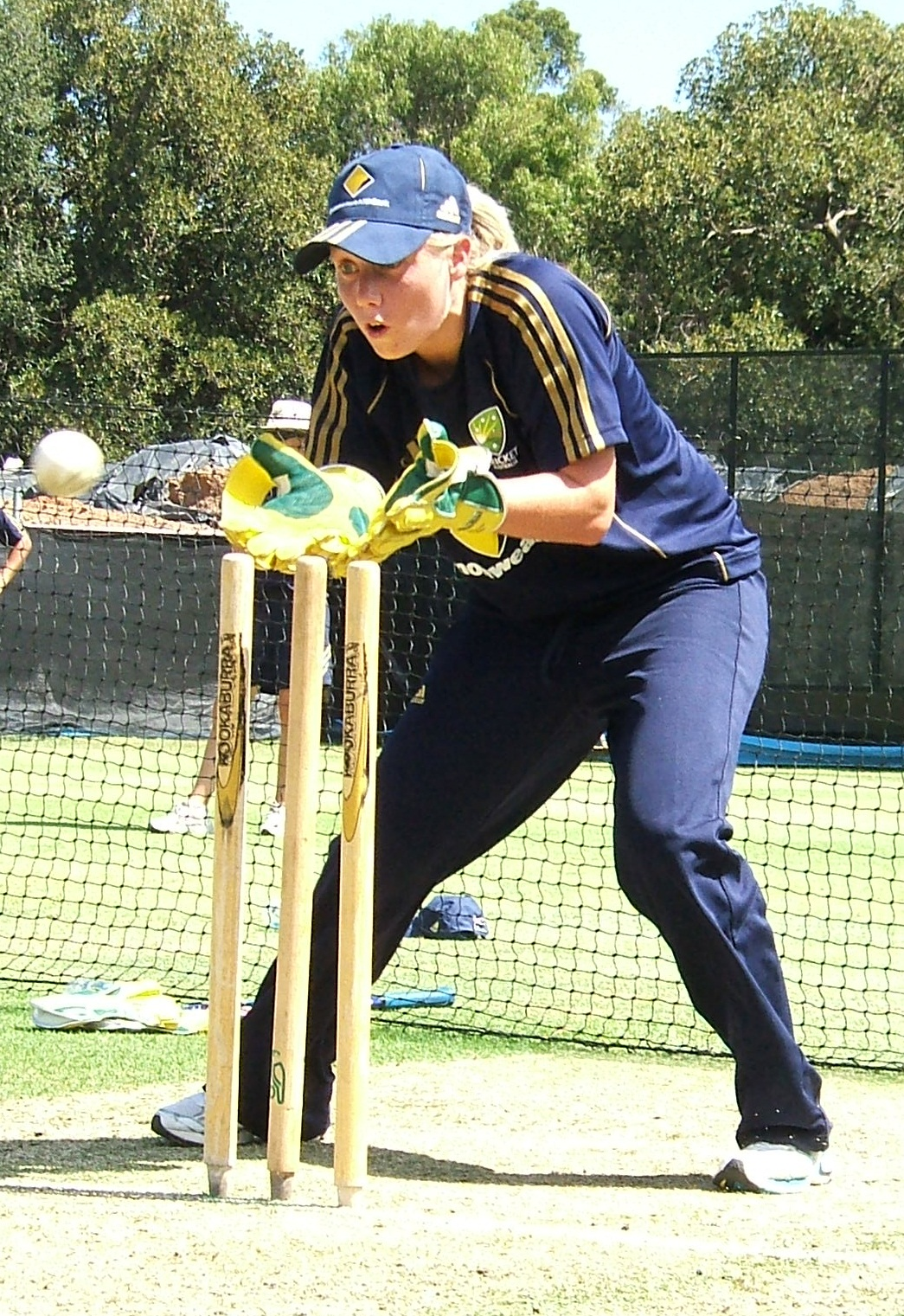 Named person engaging in named action at Adelaide Oval nets/training ground